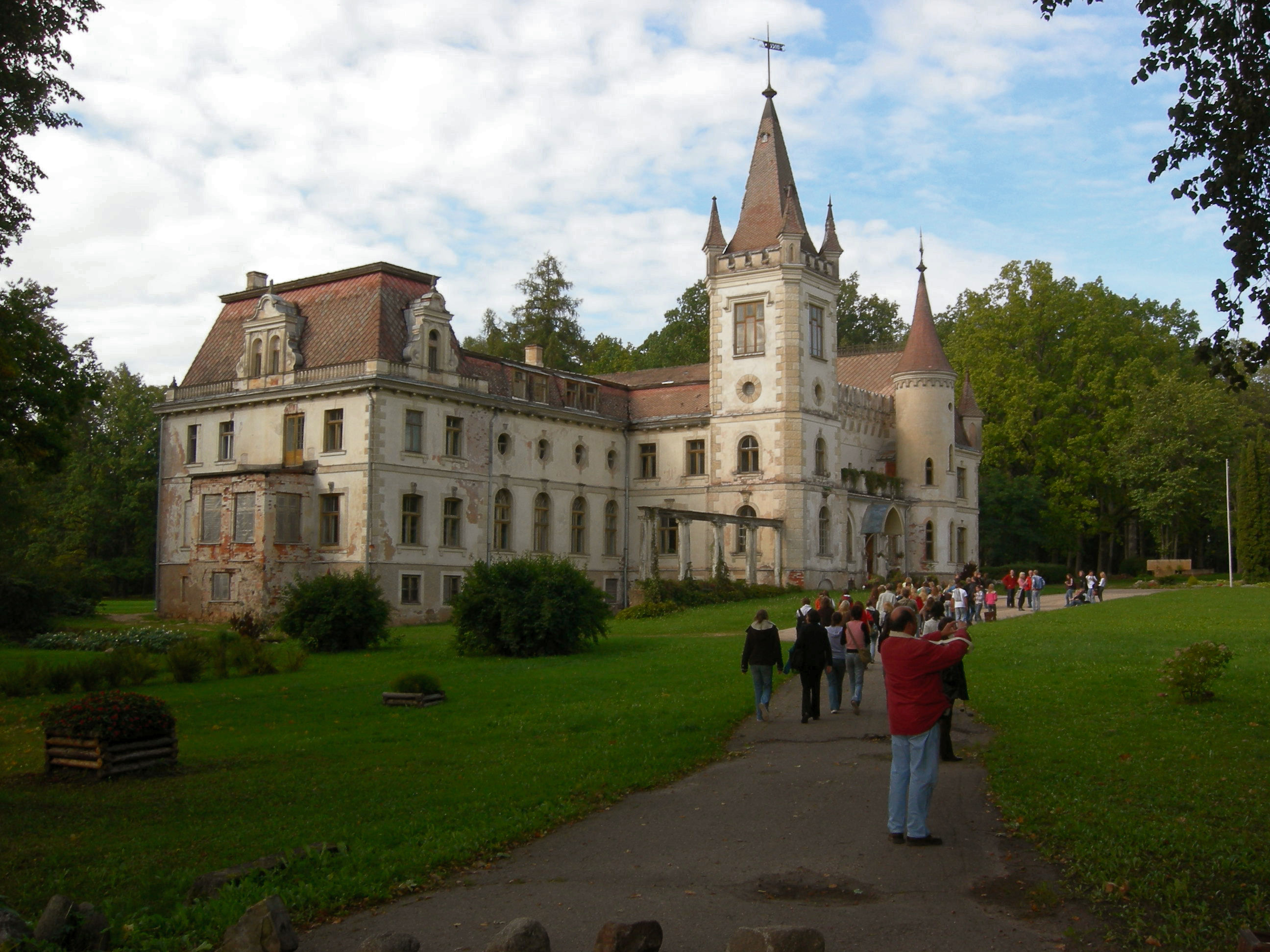 Stāmeriena Palace, An Art Noveau style palace near Gulbene city